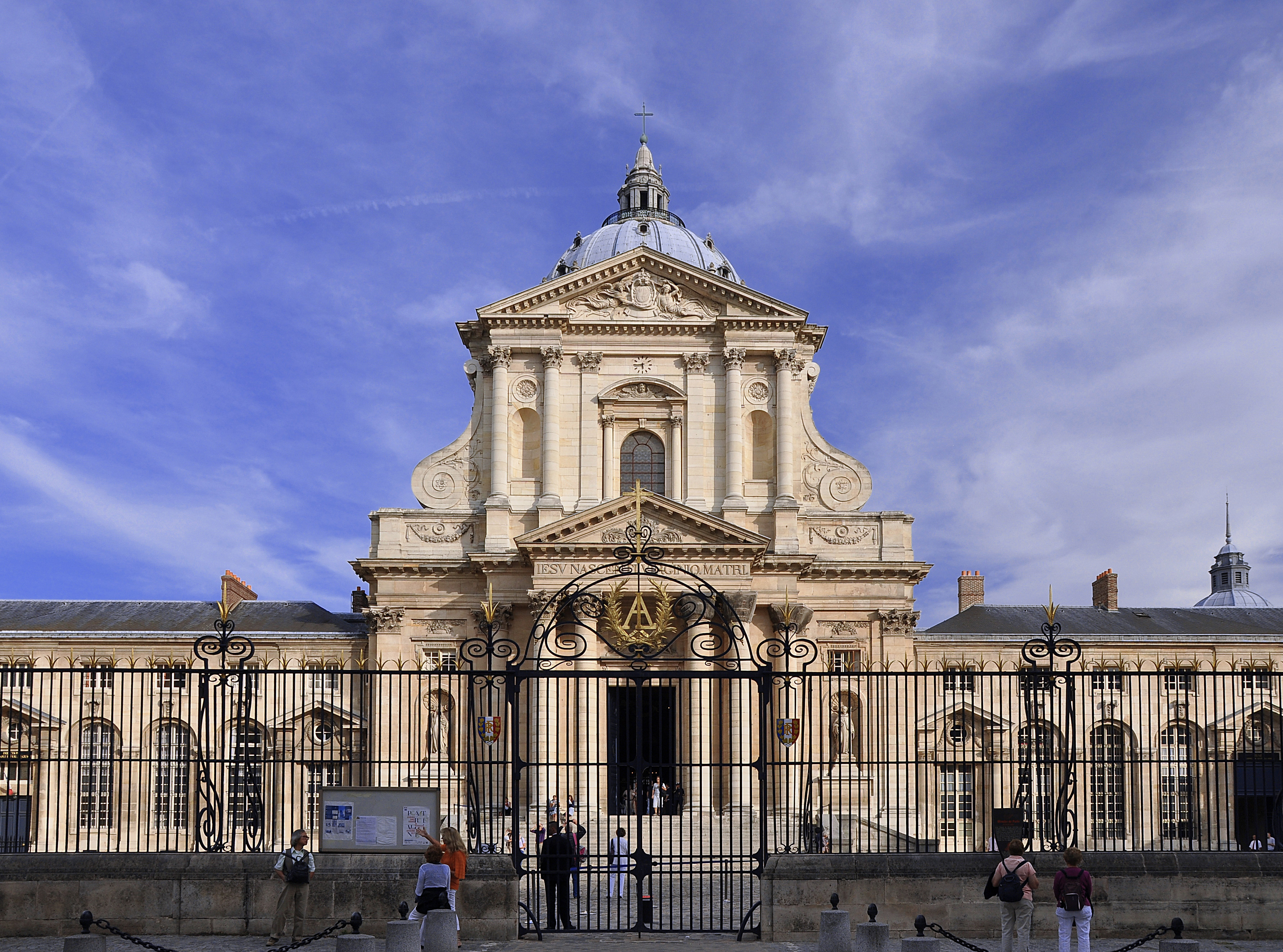 Exterior of the church of Val-de-Grâce in the 5th arrondissement of Paris in France.